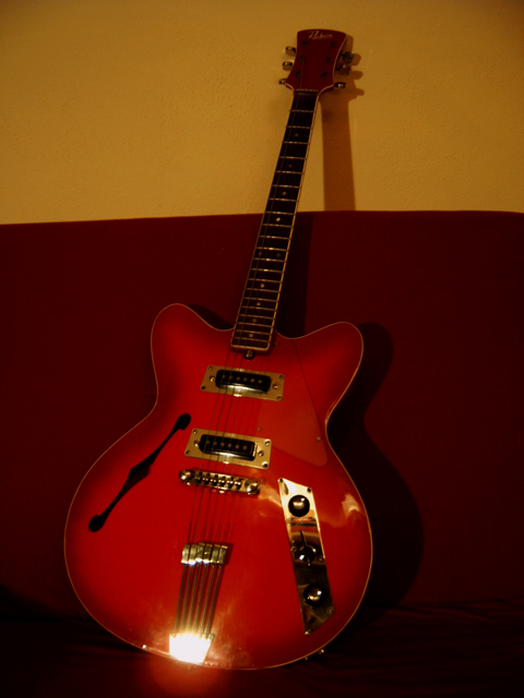 "Jolana Rubin was produced since 1973 in Hradec Králové.]